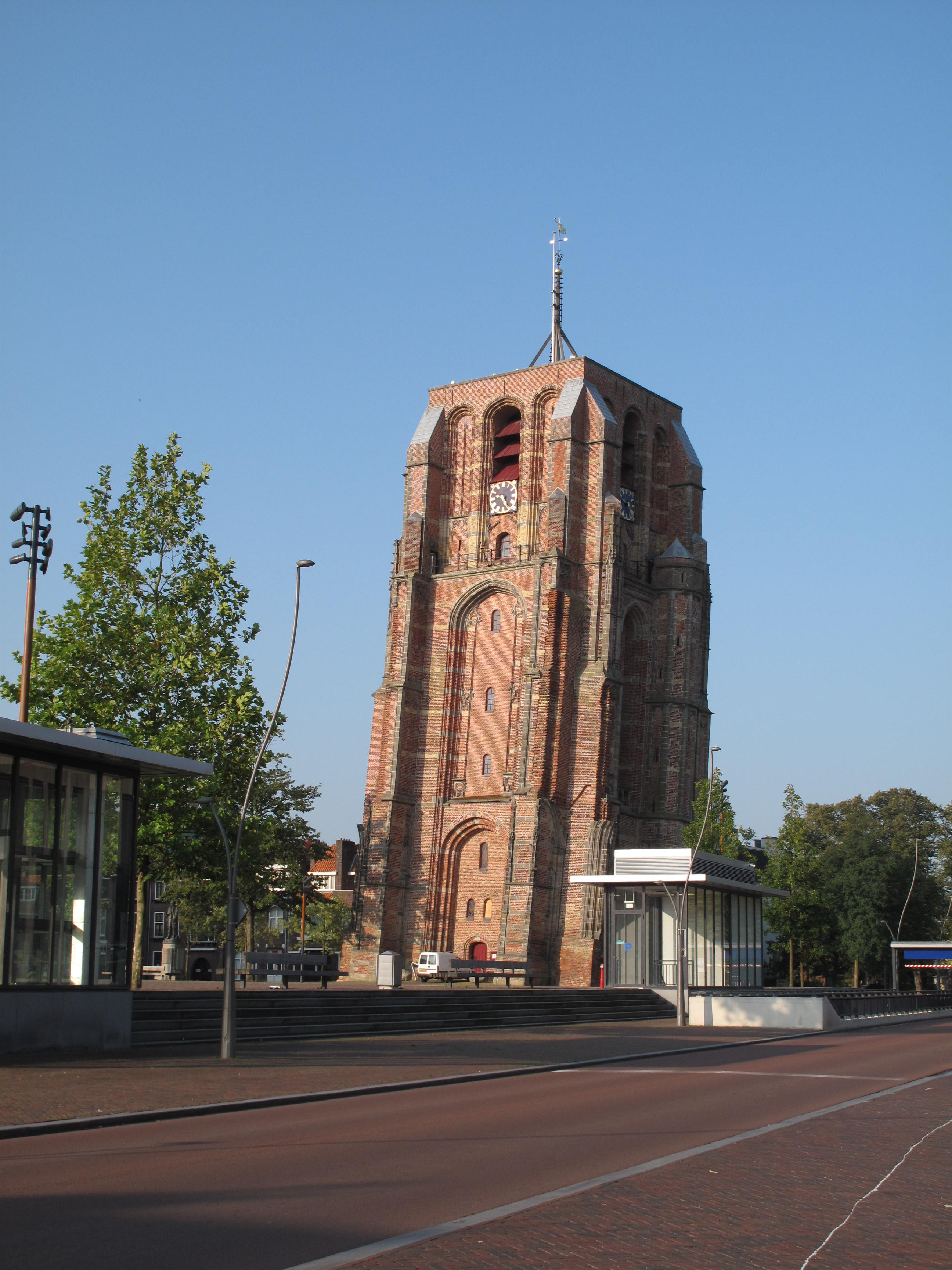 Leeuwarden, Oldehoven